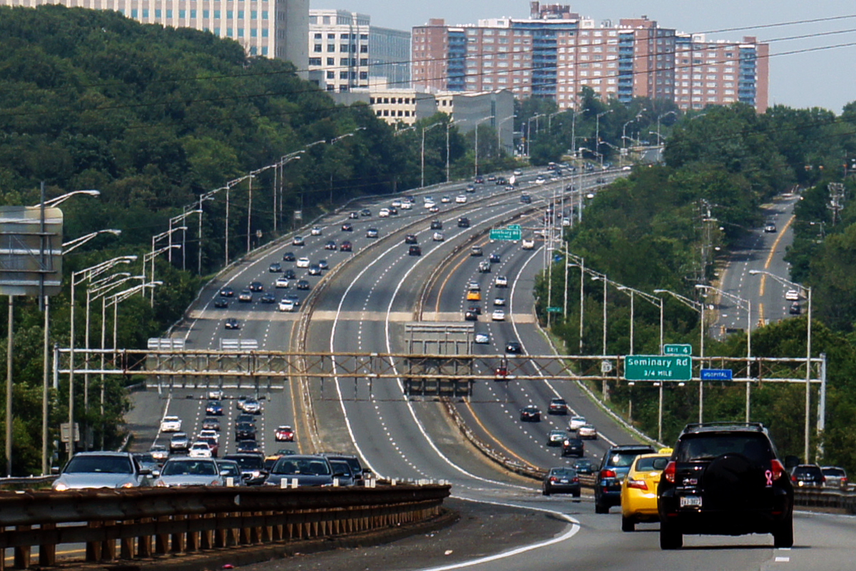 Interstate 95/395 reversible HOV lanes (located in the middle of the freeway). Virginia, US.